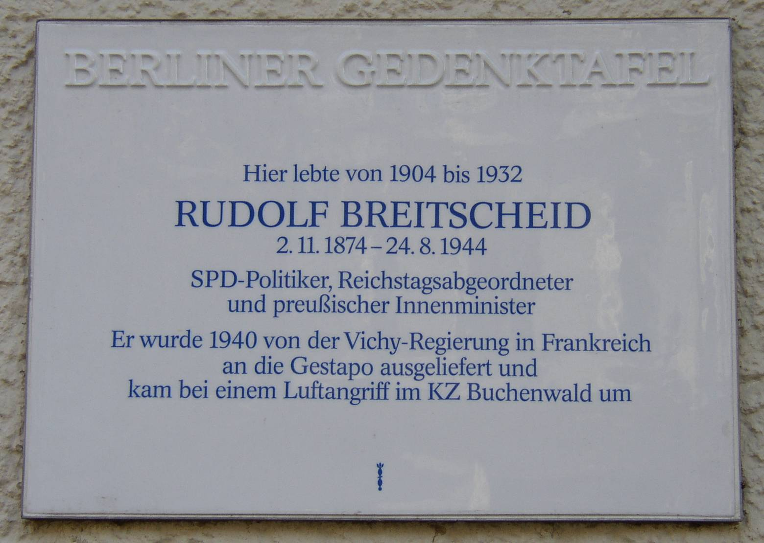 Berlin memorial plaque for Rudolf Breitscheid in Berlin-Wilmersdorf, Germany